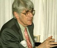 Photo by Funfare